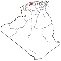 Blank map of the provinces of Algeria with a red city locator dot. Made by User:Ante Omnia, blank version by User:Golbez.